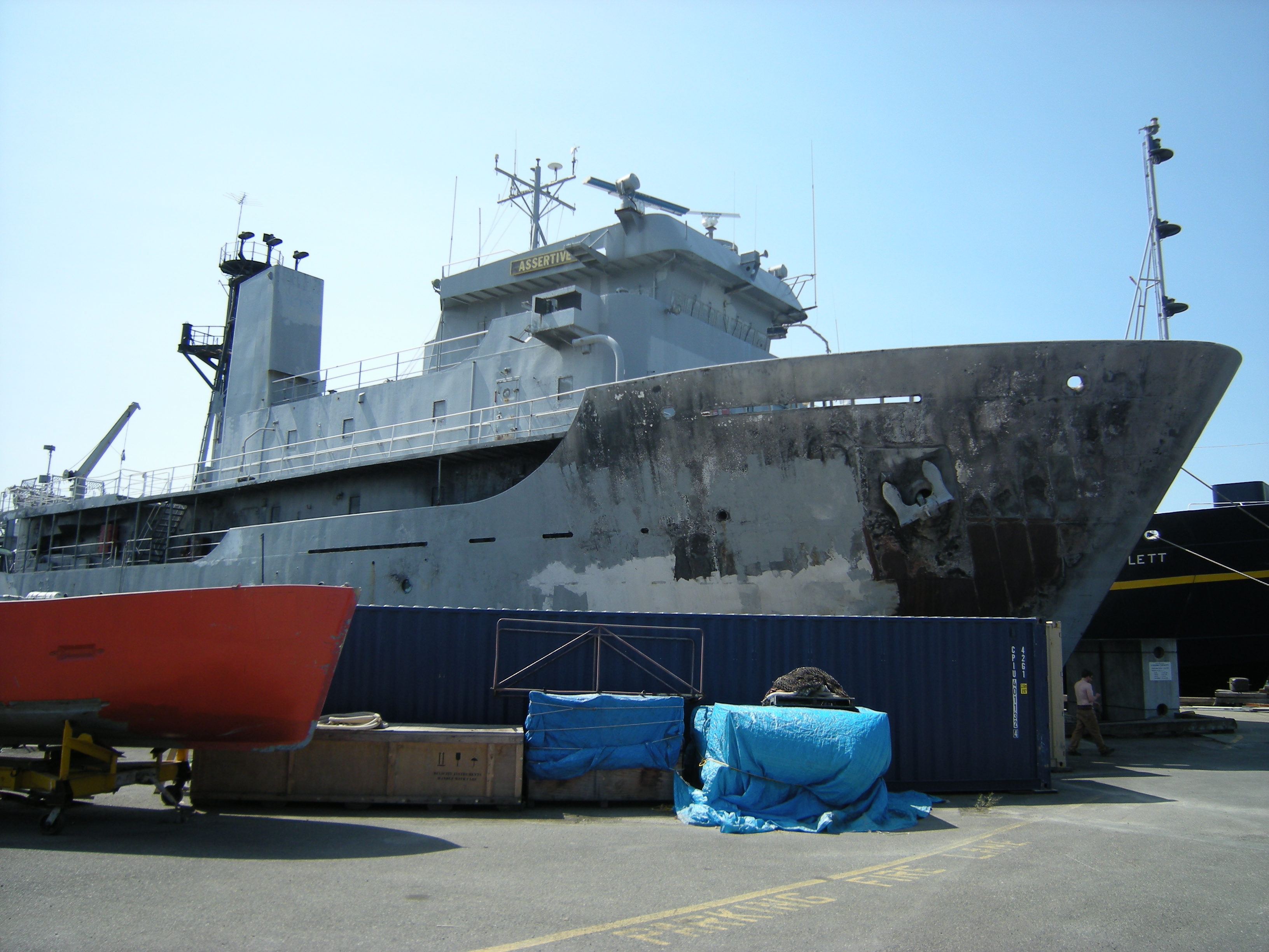 The ASSERTIVE at Seattle Maritime Academy (part of Seattle Central Community College), Ballard, Seattle, Washington. Owner: Seattle Maritime Academy IMO: 8835504 Call Sign: NAFY Length: 224 feet Beam: 43 feet Tonnage: 1,493 GT Year of Build: 1986 Builder: Tacoma Boatbuilding, Tacoma, WA Former Name: USNS ASSERTIVE (T-AGOS-9)